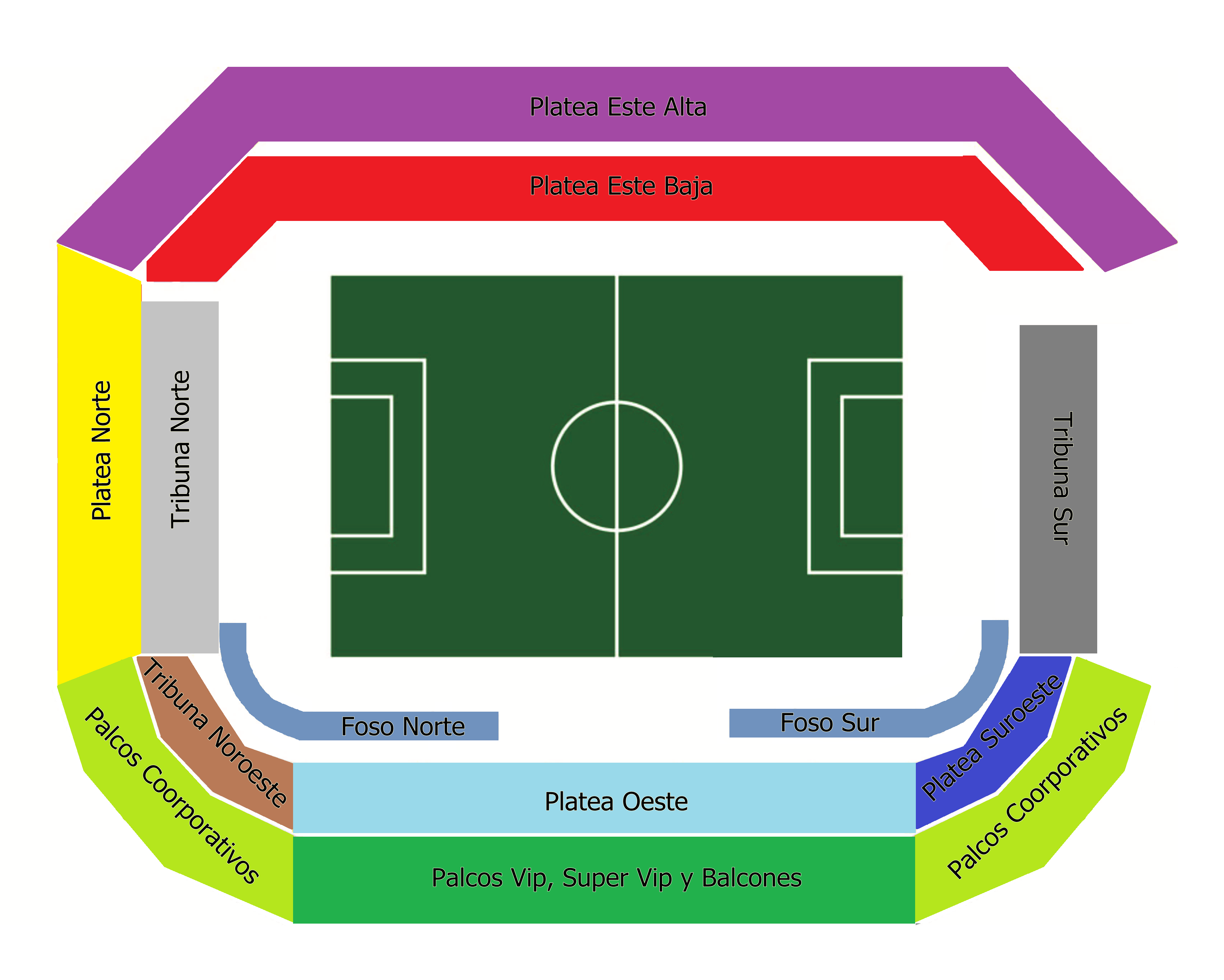 Name of each sector of the Club Colón stadium from Argentina